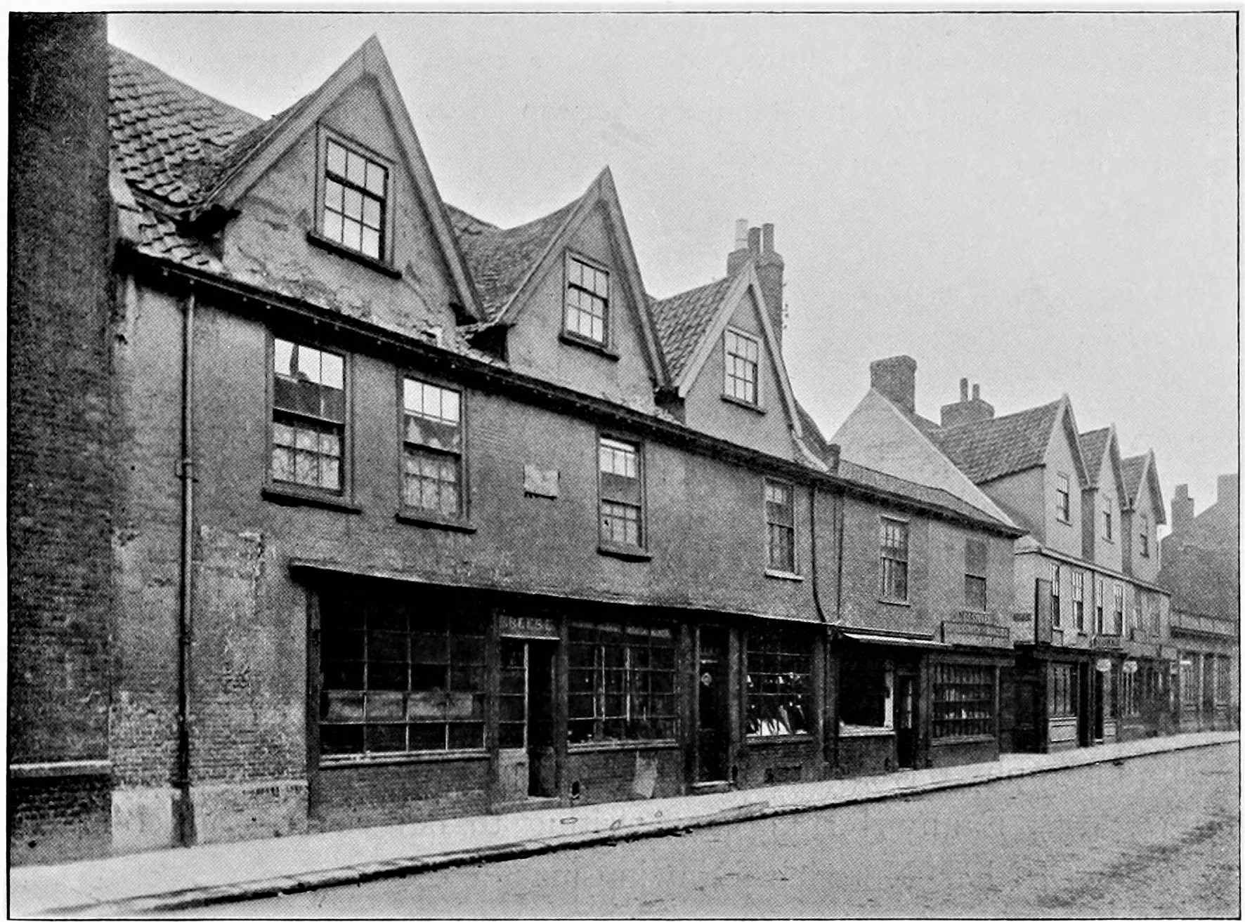 A photograph of the shop owned by the water-colourist John Thirtle (1906)